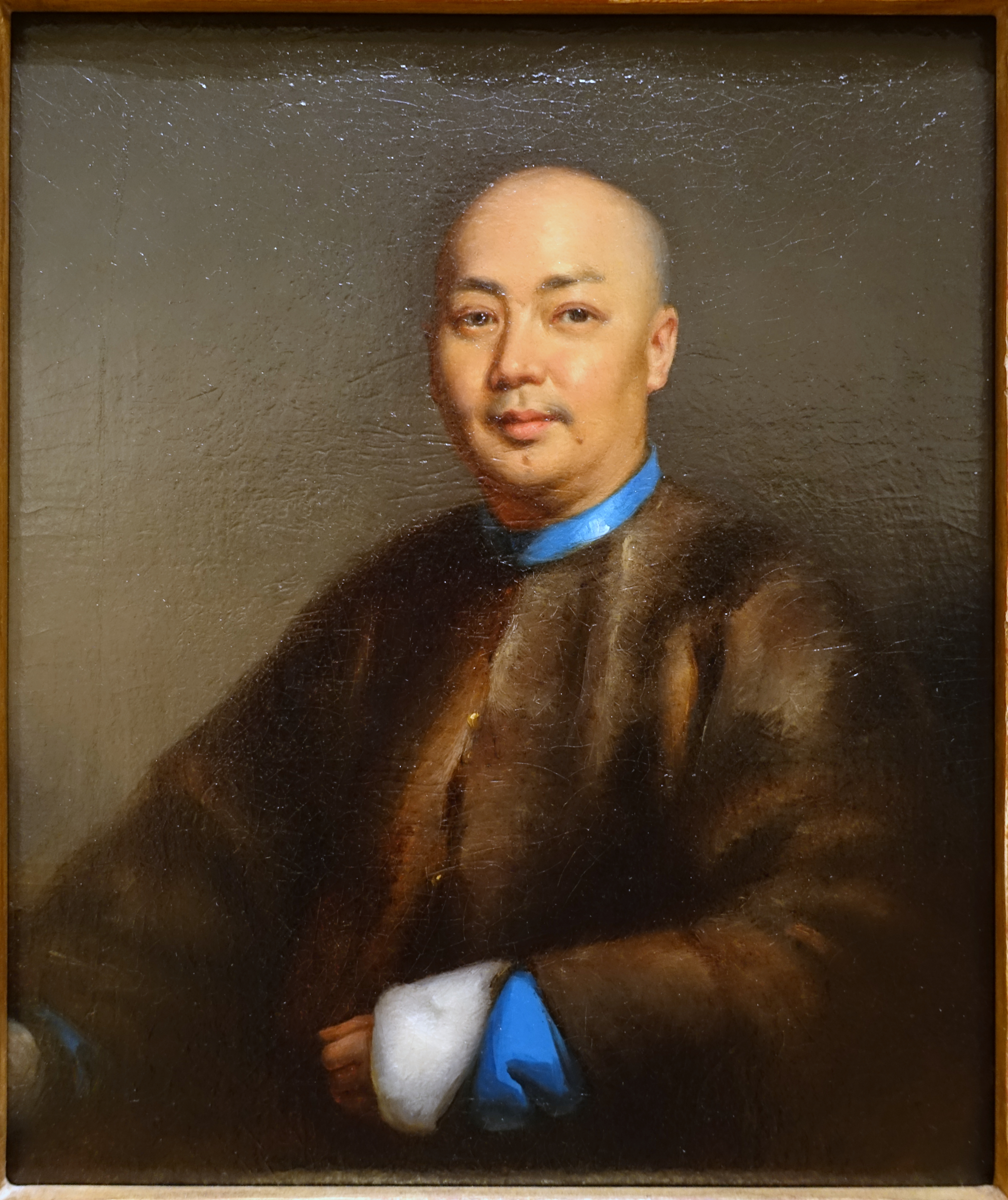 Exhibit in the Peabody Essex Museum - Salem, Massachusetts, USA.